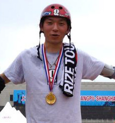 Takeshi Yasutoko vert skating